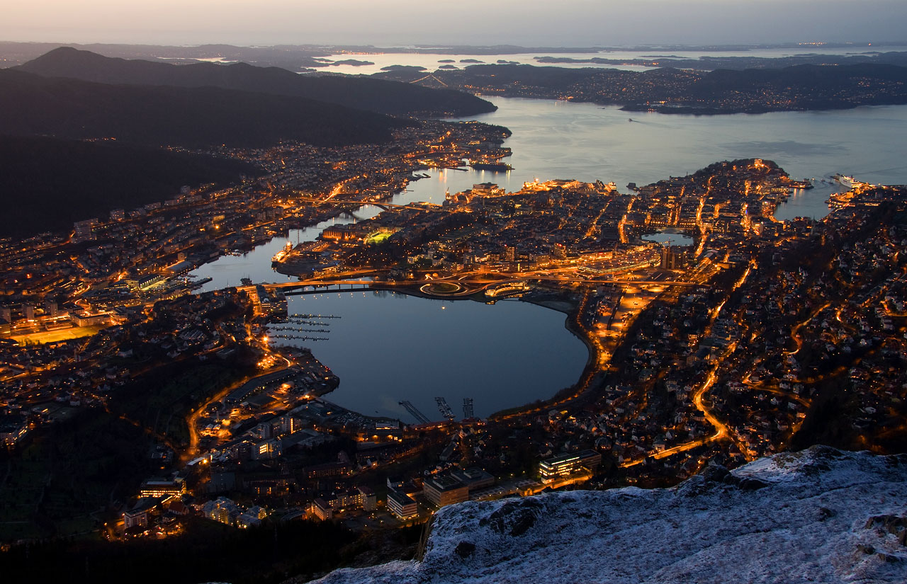 View of Bergen from Mount Ulriken at Night, Bergen - Norway.